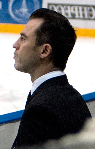 Bruno Marcotte, as Mervin Tran and Narumi Takahashi's coach, 2010 Cup of Russia, short program.